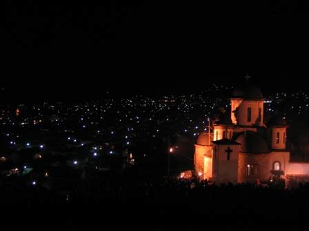 Old architecture in Bitola town - Republic of Macedonia Author: MatriX in April 2006 Licence: GFDL-self